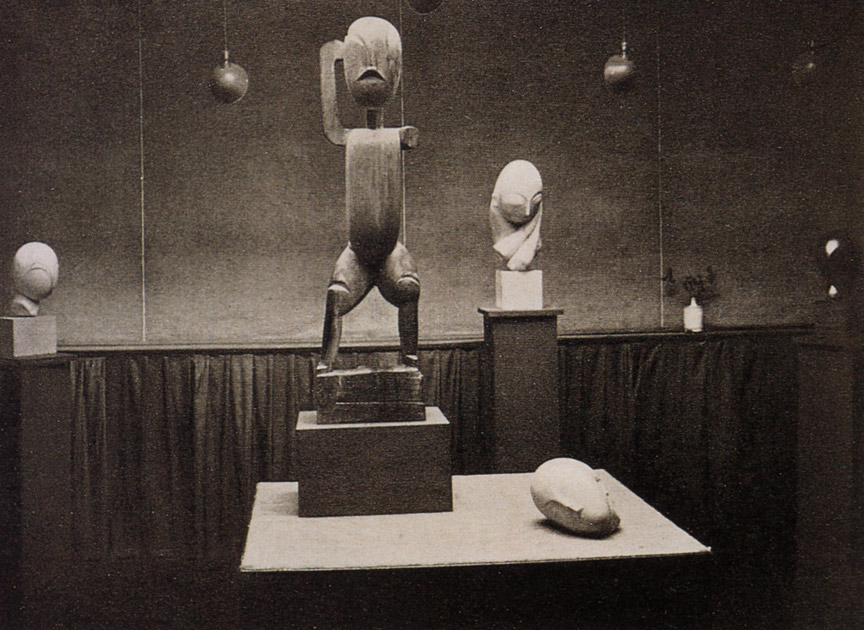 Photo of the Brancusi sculpture exhibition, March-April 1914, at "291" (gallery)